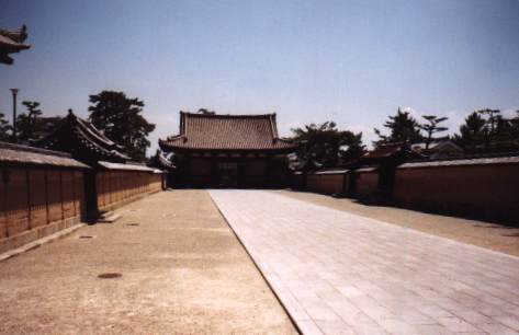 View of the Gate to the Western District, Hōryū-ji, Nara Prefecture, Japan